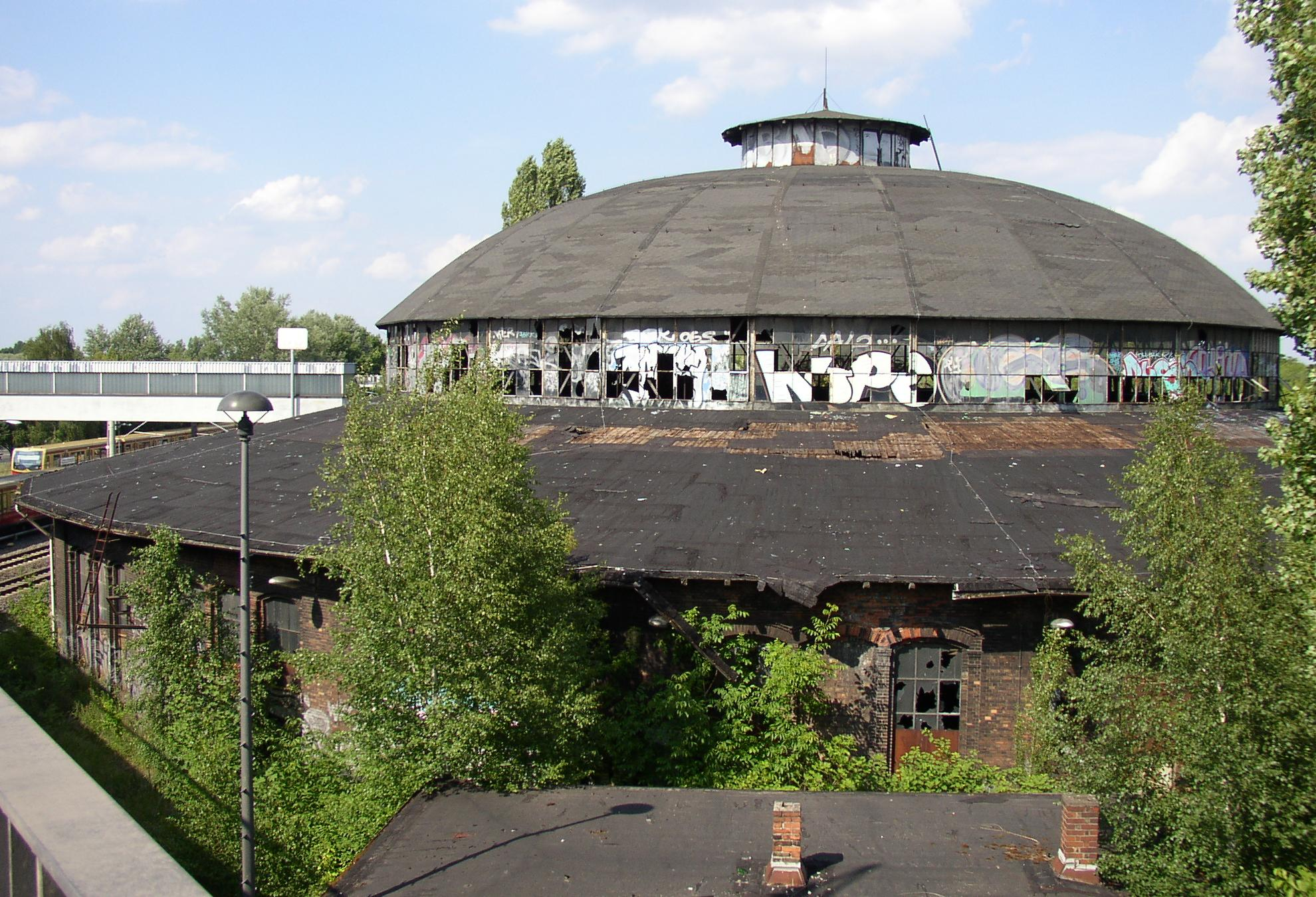 Roundhouse in Berlin-Pankow, Germany